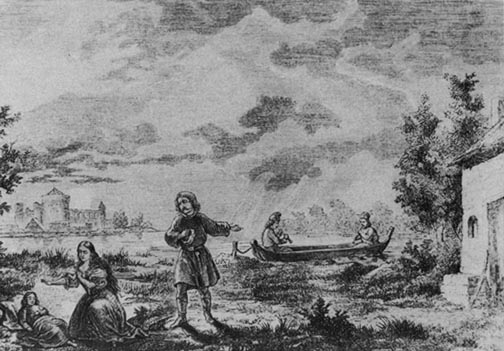 Ferenc Erkel - Bánk bán - scene from the opera - 1861